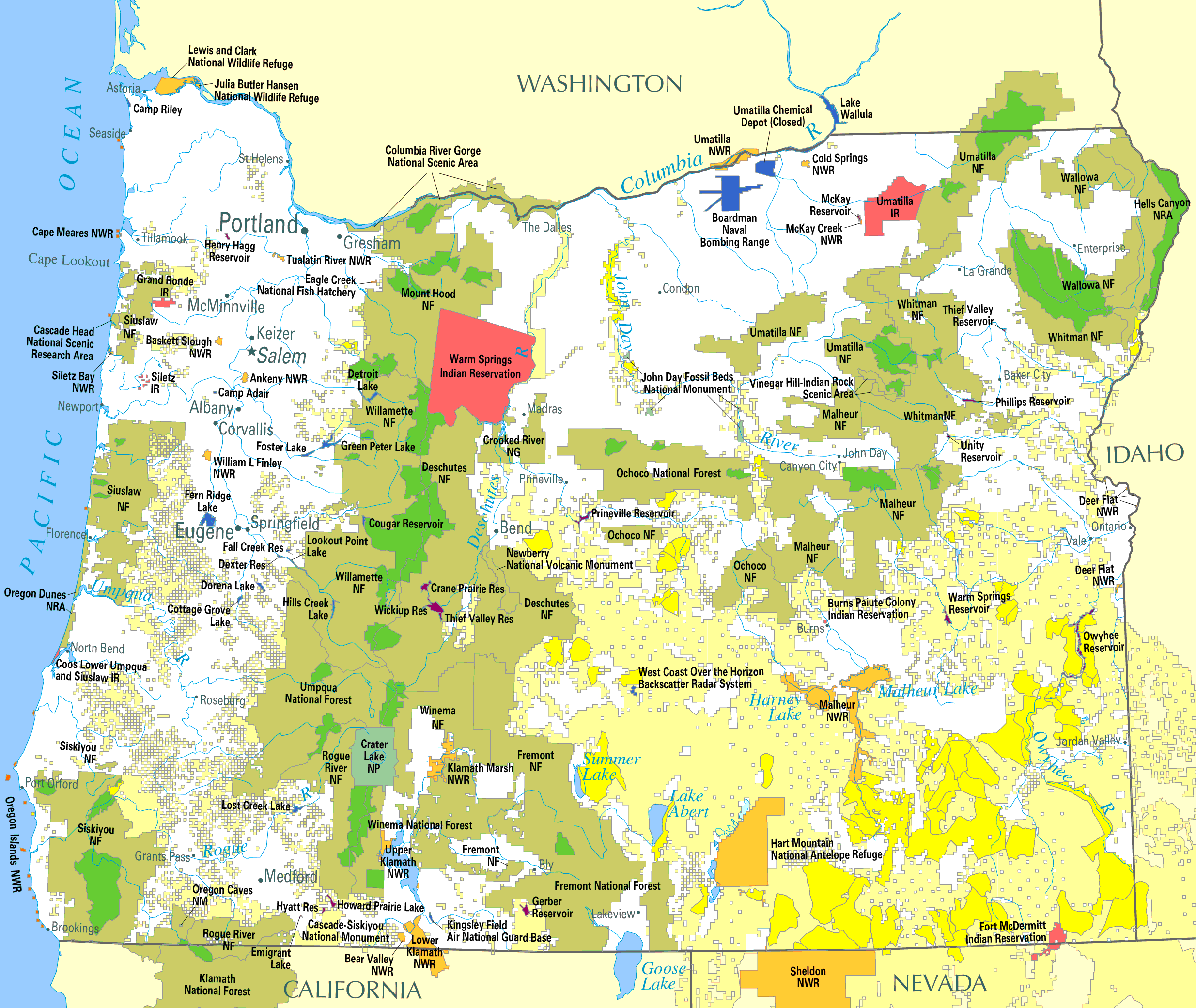 Map of Federal lands in the U.S. state of Oregon